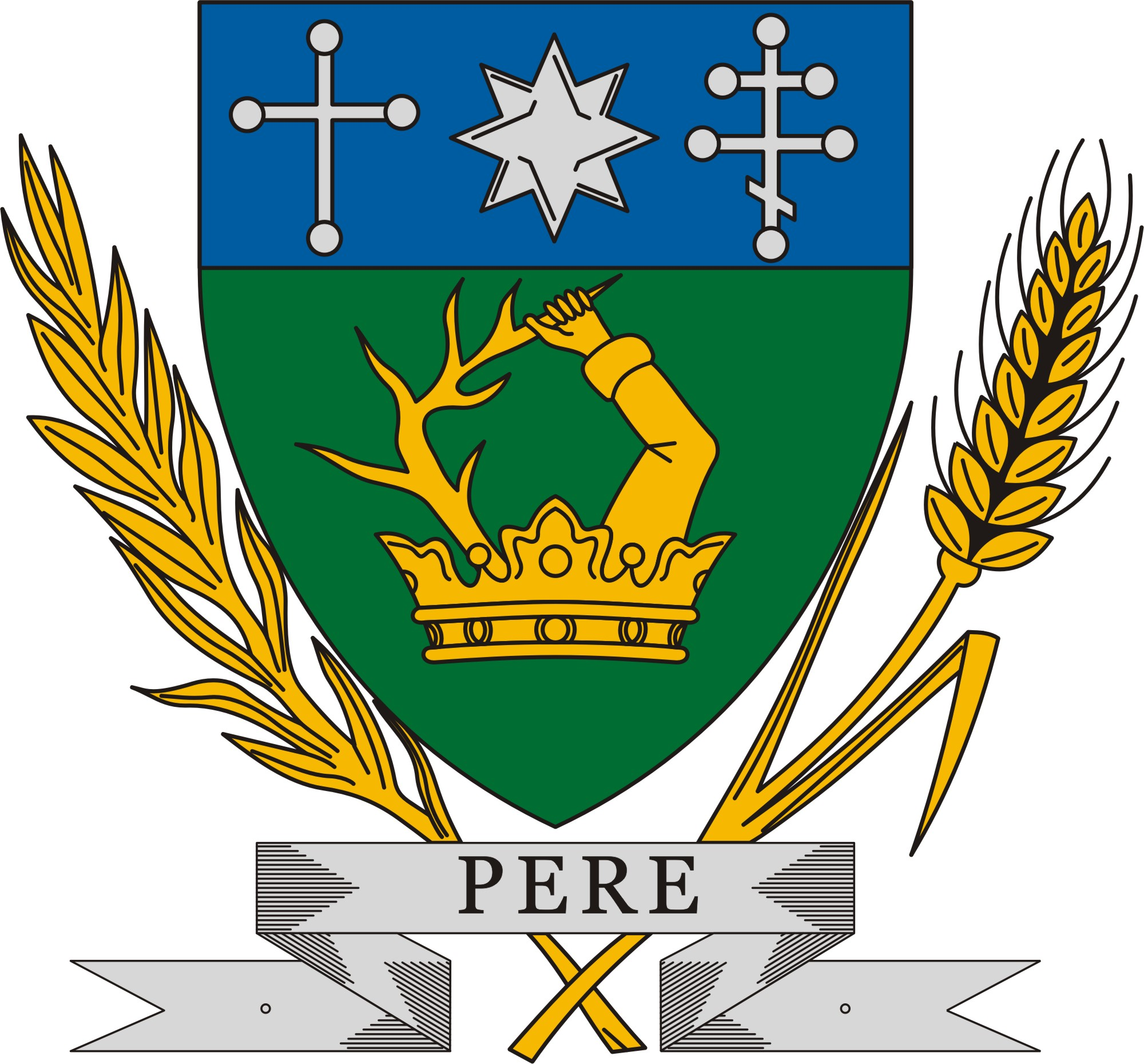 Coat of arms of Pere, Hungary